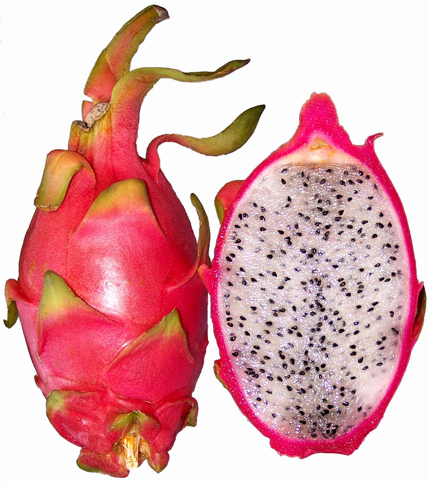 Hylocereus undatus There is to see one and a half purple red pitahayas, showing the white flesh and black seeds of the cactus Hylocereus undatus. Una y media pitahayas rosa, mostrando la carne blanca y las pepas negras. Order: Caryophyllales Family: Cactaceae